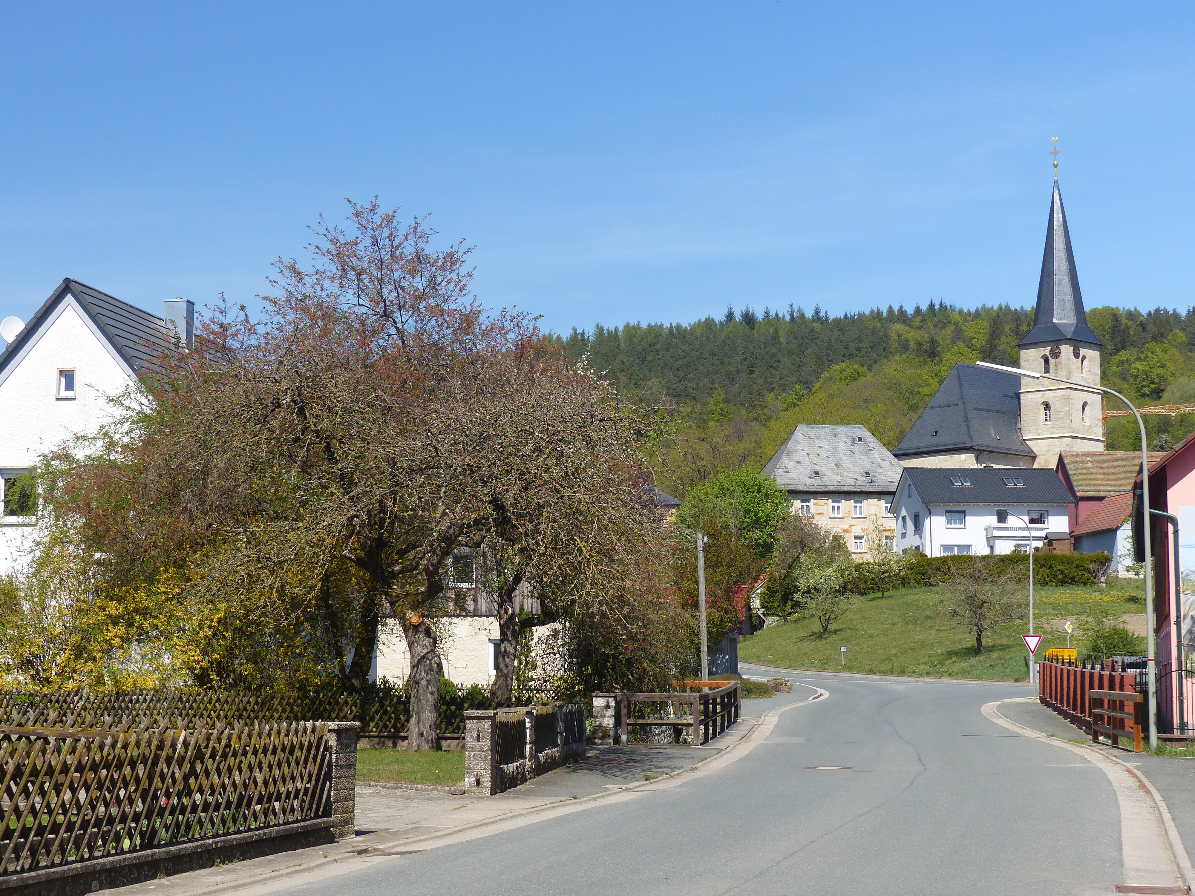 The parish village Volsbach, a district of the municipality of Ahorntal.